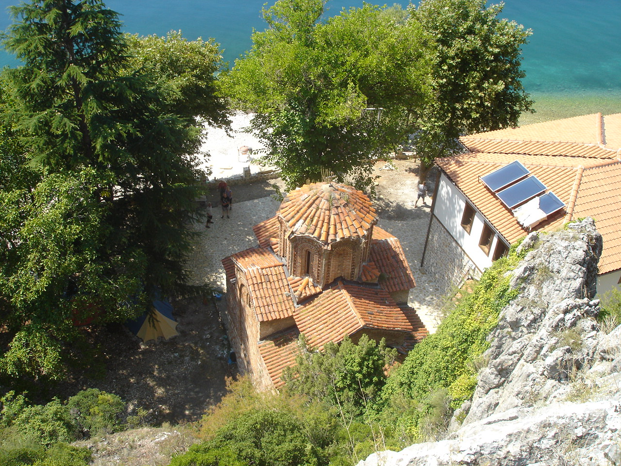 The church of Holly Mother in Zaum monastery on the shore of Ohrid Lake, Macedonia